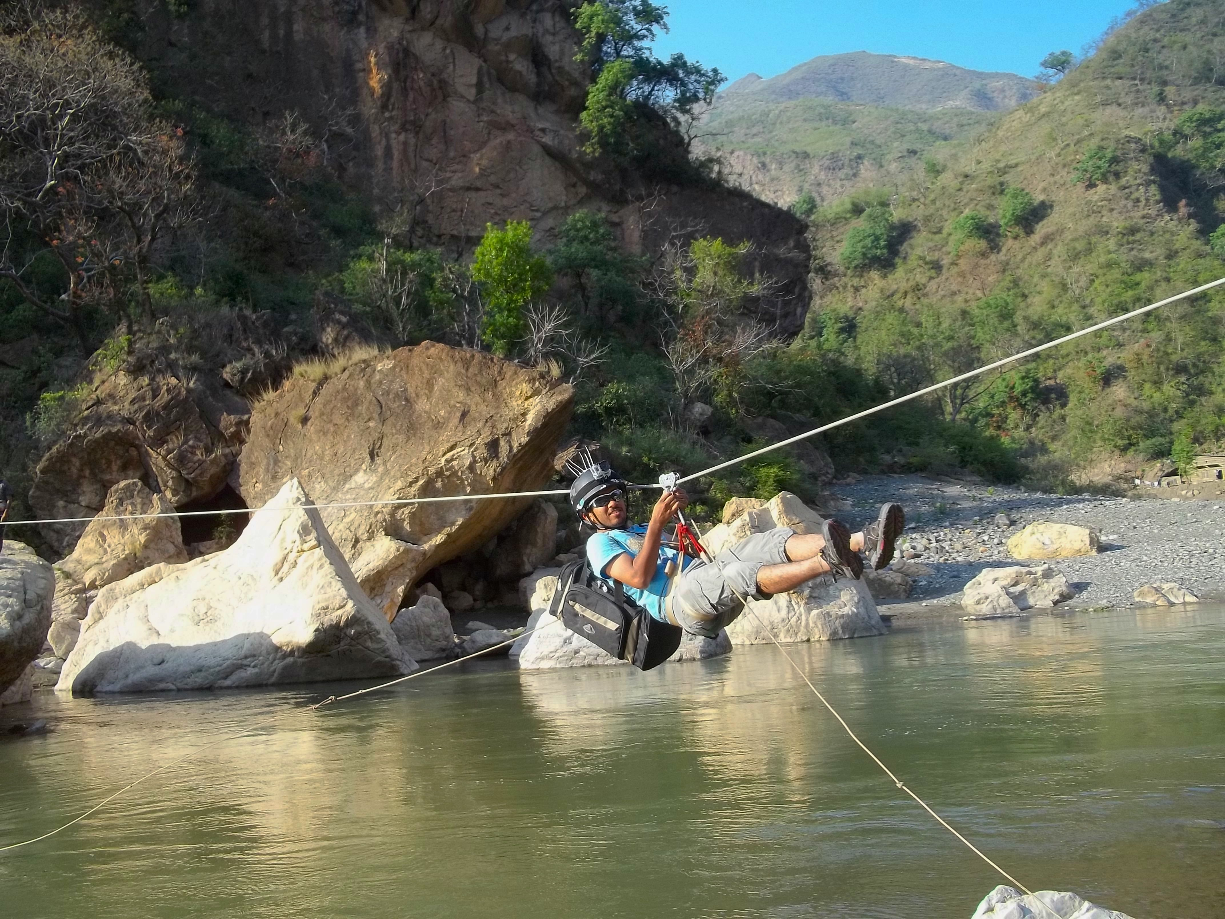 Zip line crossing of Giri river, Himachal Pradesh, India